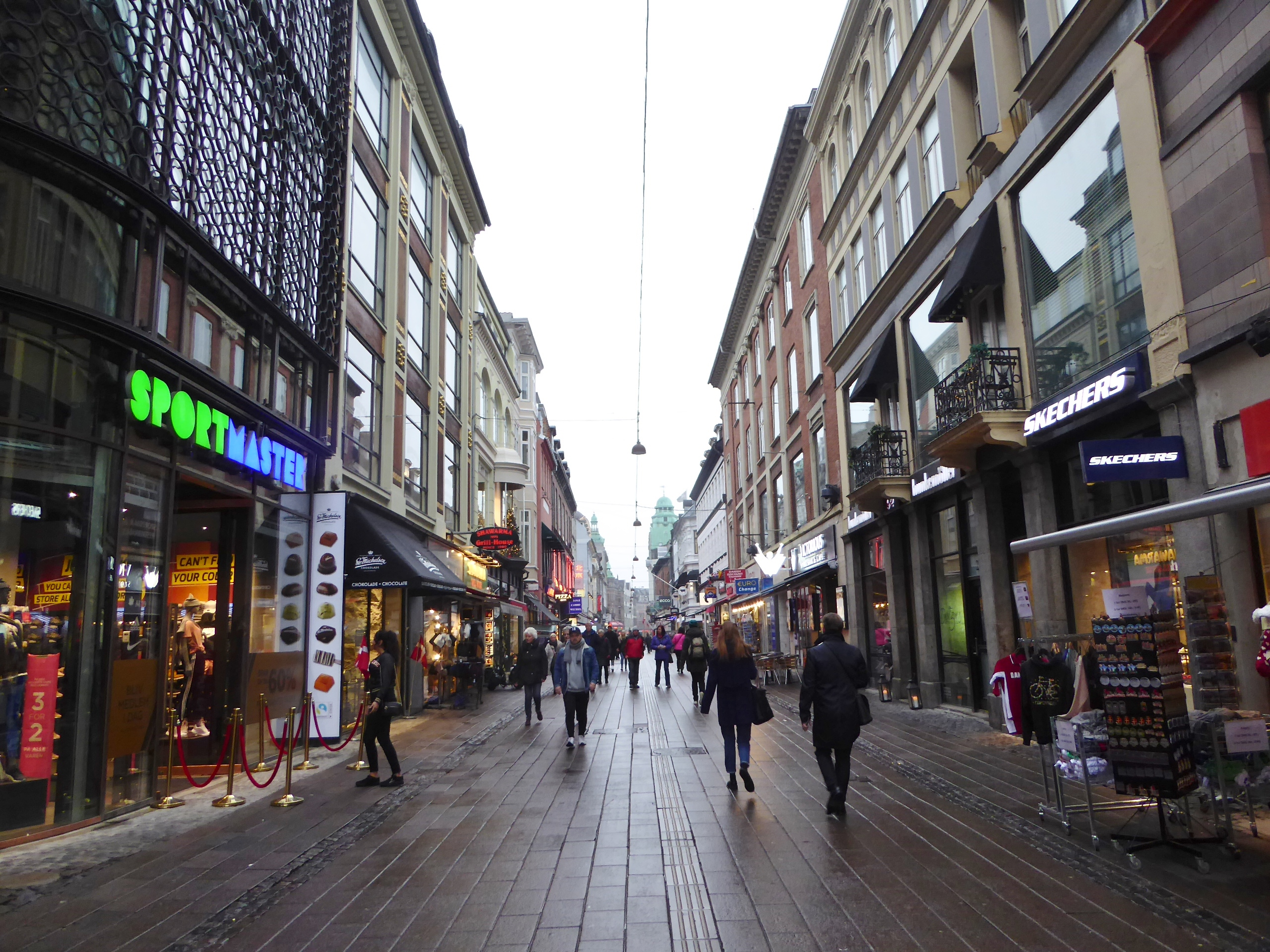 Frederiksberggade, a part of the pedestrian street Strøget in Indre By in Copenhagen.